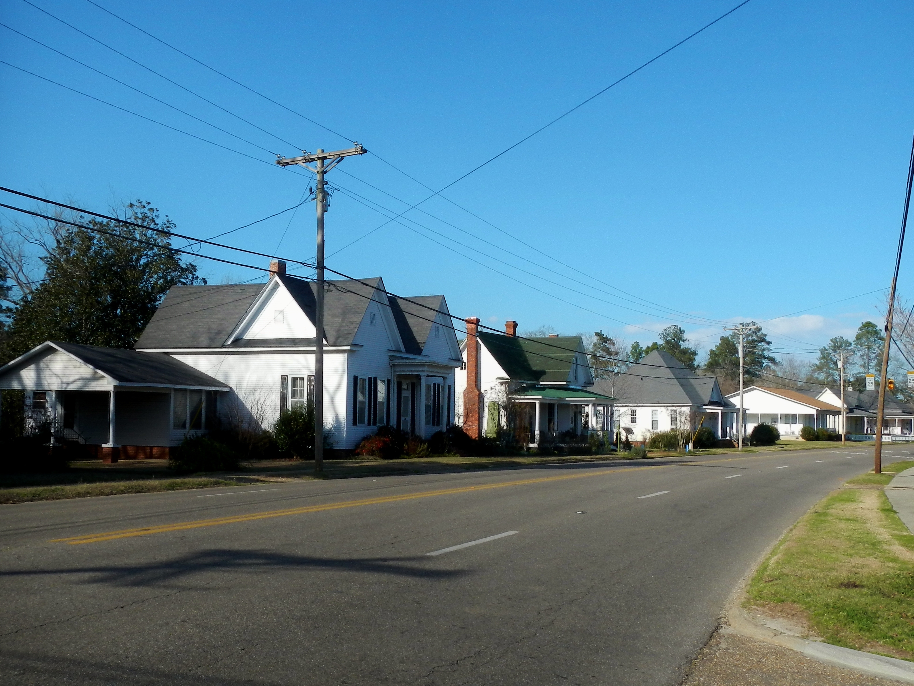 A photo of the Brantley Historic District — in Brantley, Crenshaw County, Alabama.